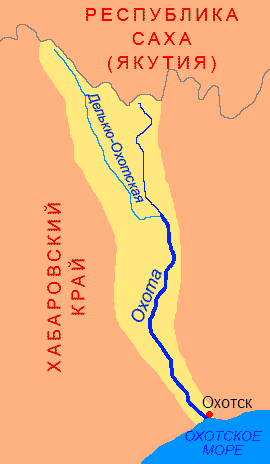 Map of Ohota River Basin